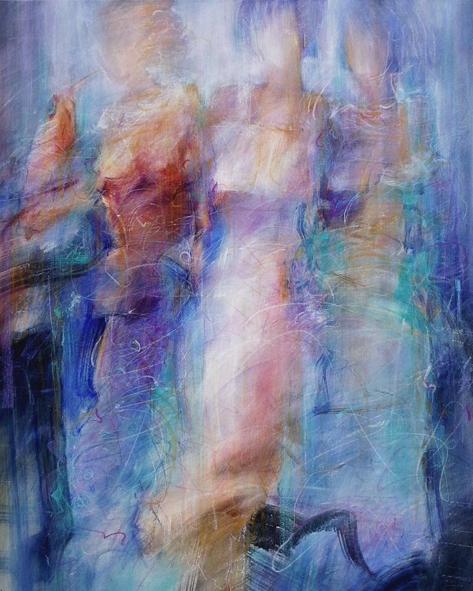 Three Graces in Blue painting by Antoni Karwowski.